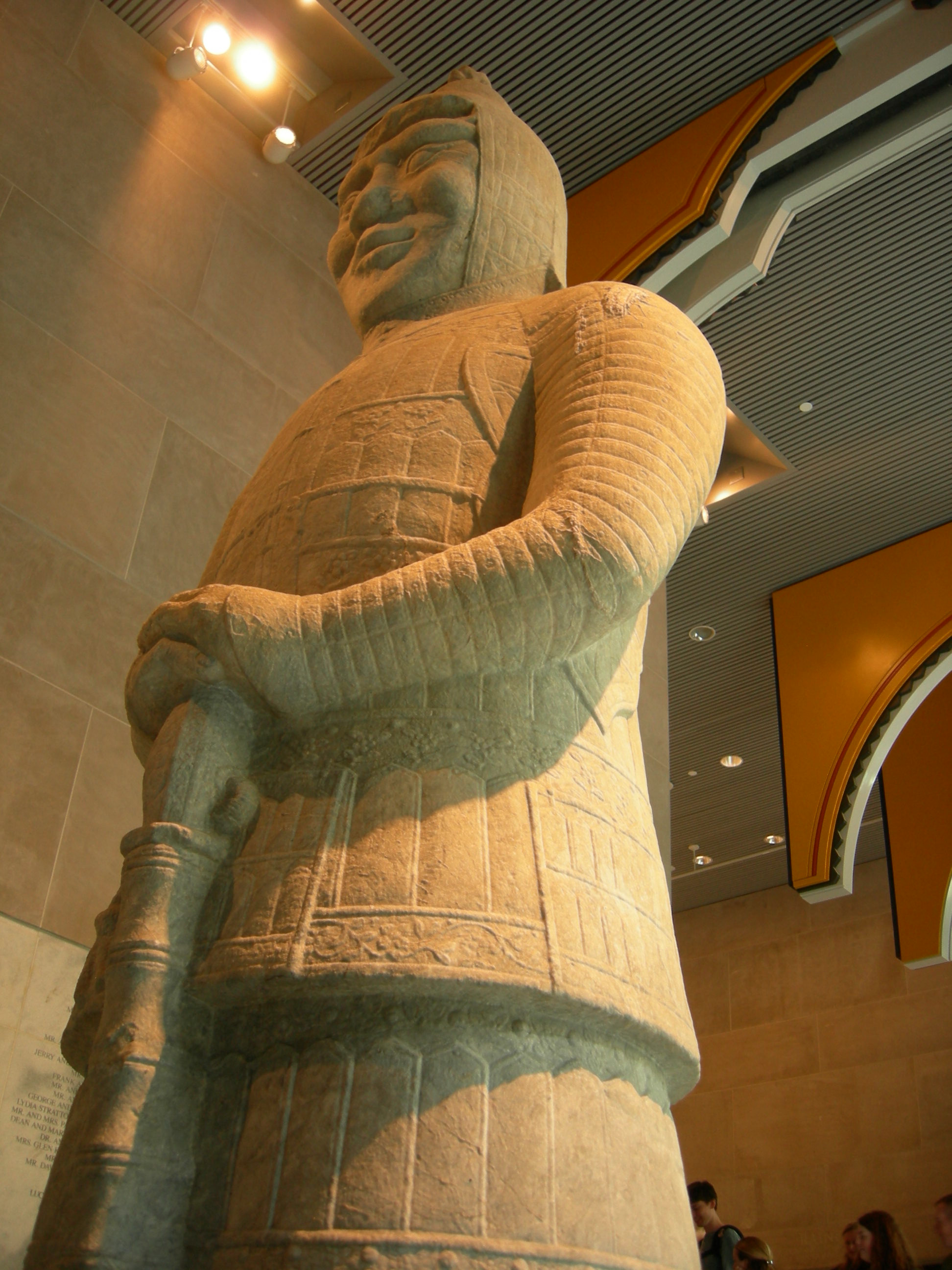 "Military Guardian", Chinese funerary statue, part of the "Art Ladder", the main staircase of the original Robert Venturi portion of the Seattle Art Museum, Seattle, Washington.